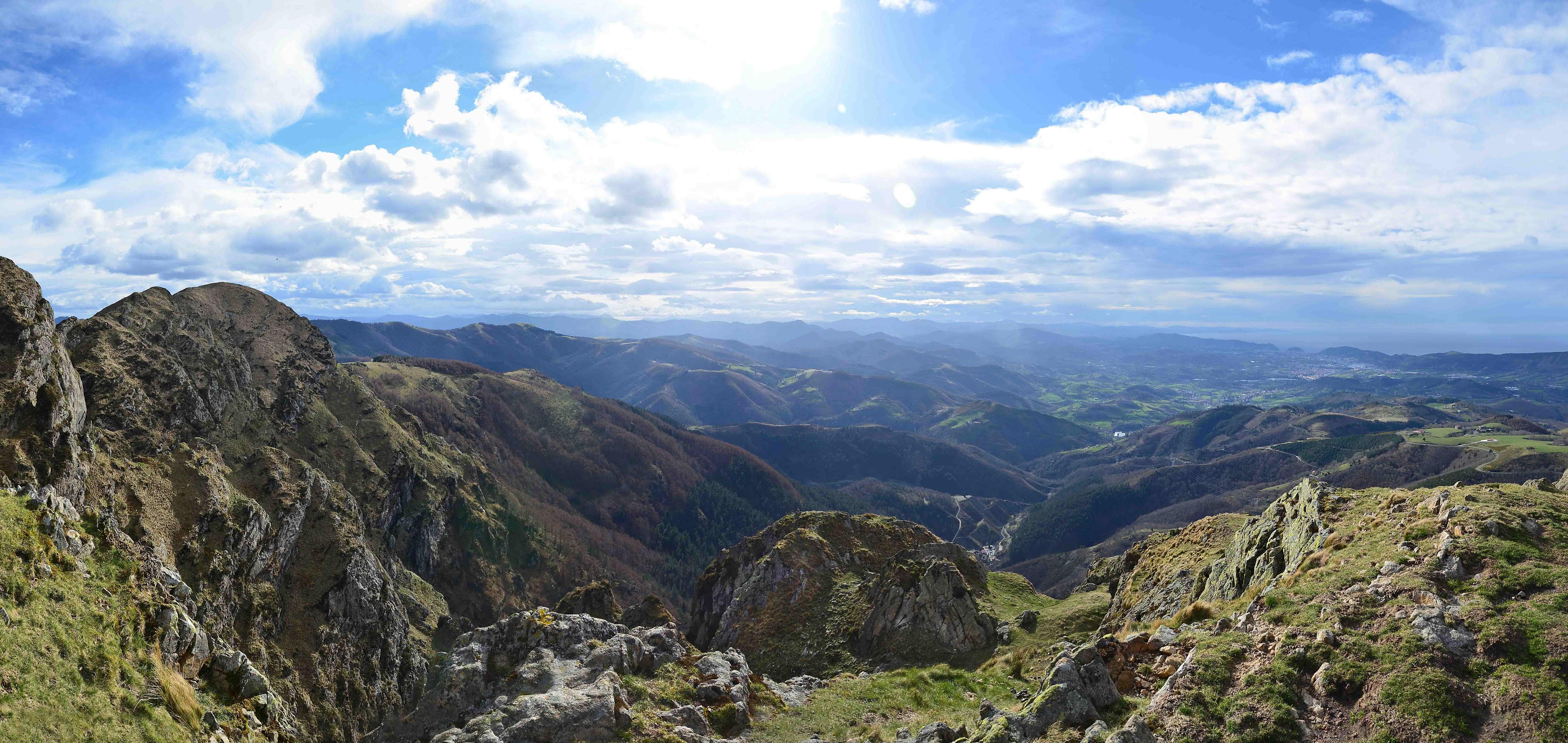 Landscape from Peñas de Aya Mountain